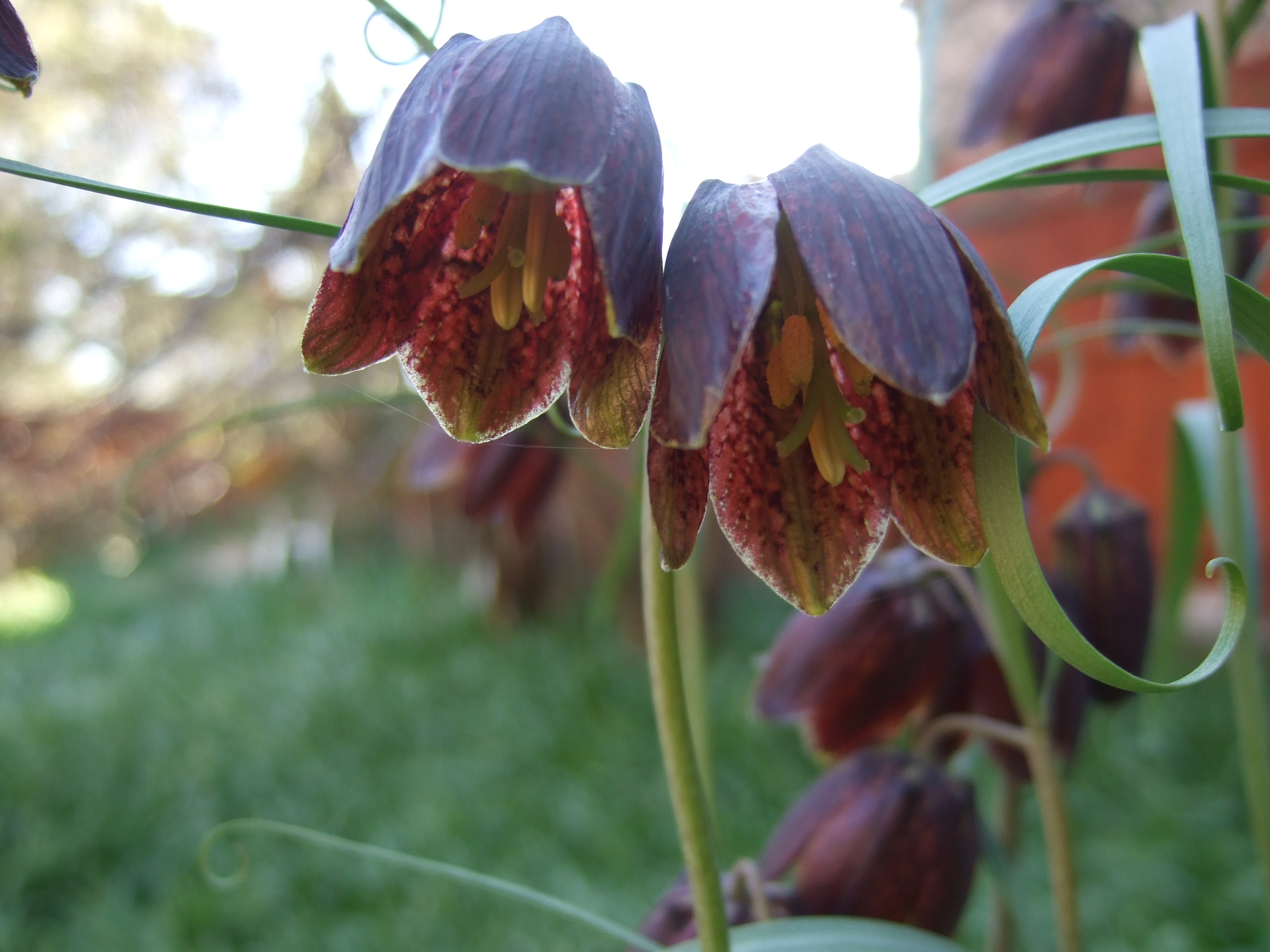 Fritillaria ruthenica